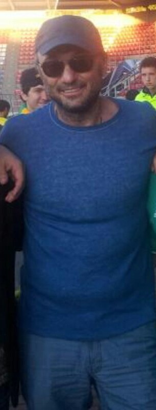 Suleyman Kerimov after the match Anzhi Makhachkala - Honved